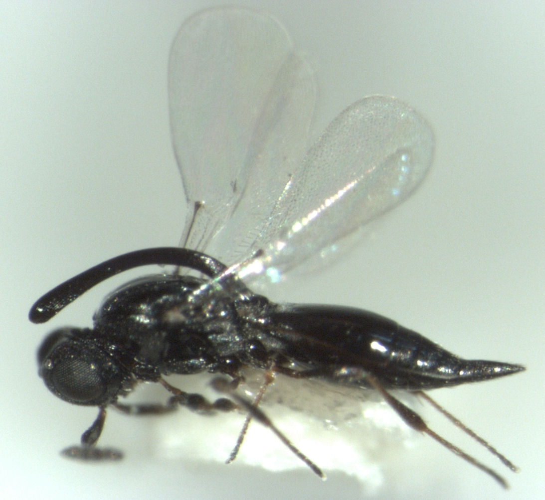 adult female Inostemma boscii from New Zealand